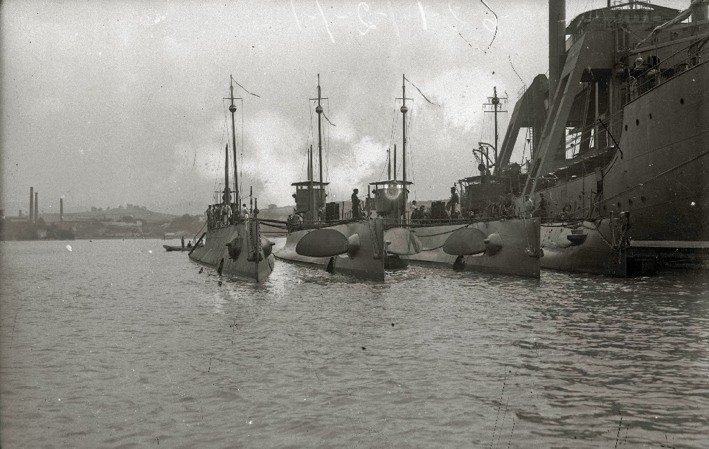 Spanish Navy B-class submarines and submarine tender Kanguro in the bay of Pasaia (1922)